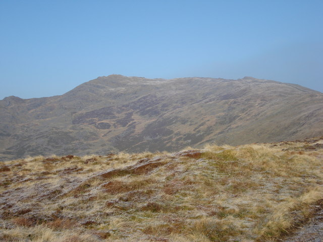 Y Garn, 3 km from Ganllwyd, Gwynedd, Wales. Y Garn photographed from the spot height 433 marked on the 1:25000 map